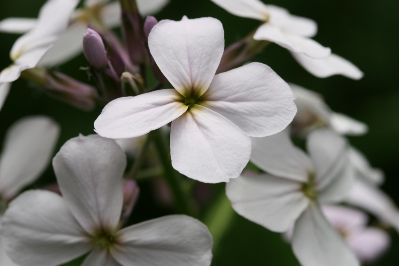 Hesperis matronalis: Flower (close up)